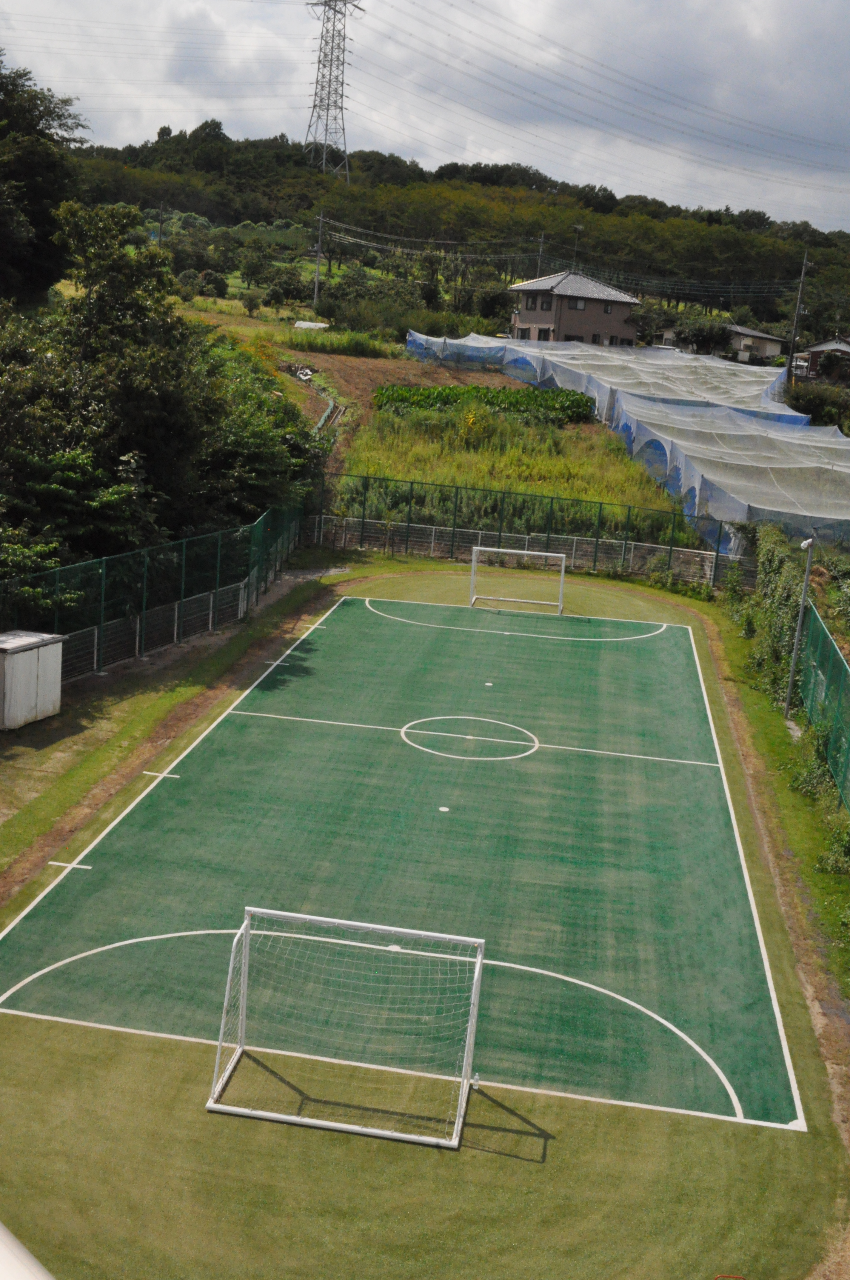 TWIS outdoor playground's picture